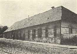 "The Great Beer Hall", where the St. Andrew's Day Assembly was held